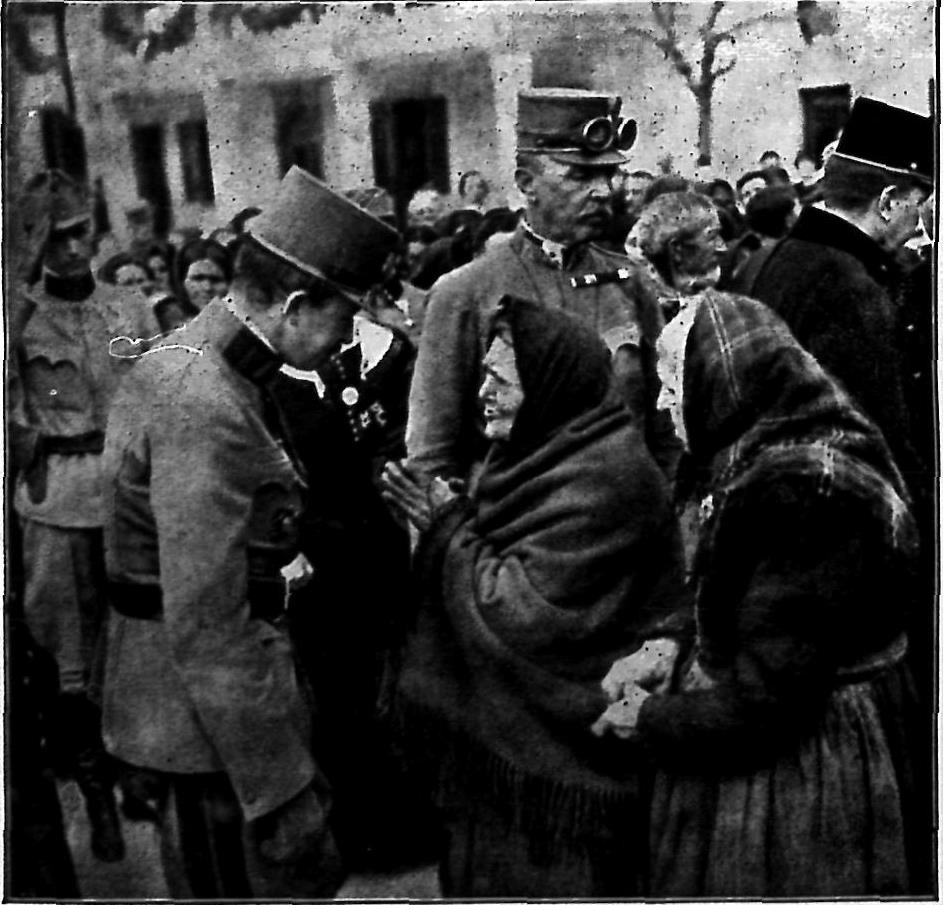 Emperor Charles I visiting Labin (Croatia) in 1918., listening to locals and their complaints